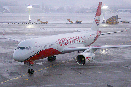 Red Wings Airlines Tupolev Tu-204 RA-64043